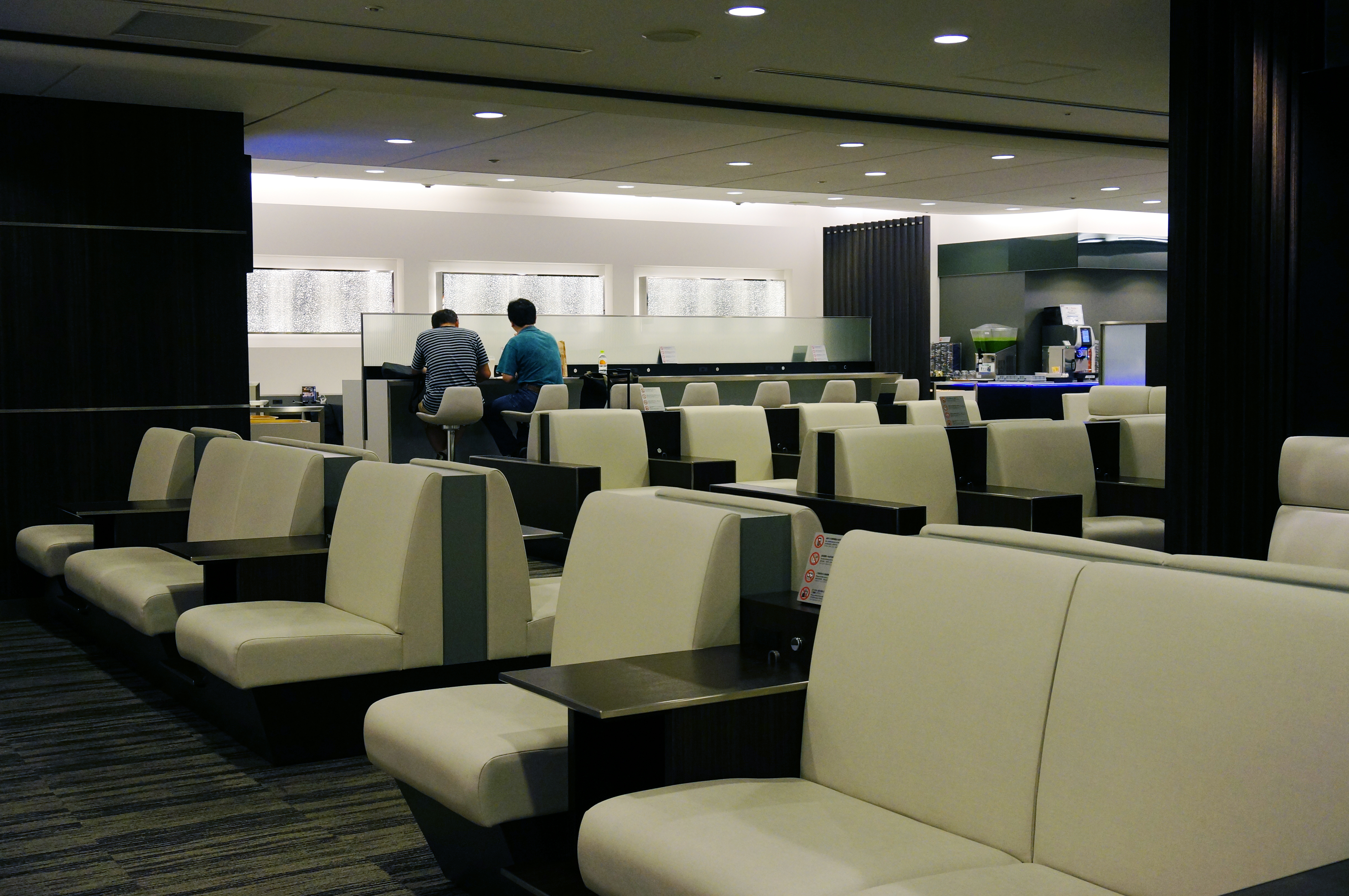 ANA Lounge of Kansai International Airport (Domestic) in Izumisano, Osaka prefecture, Japan.